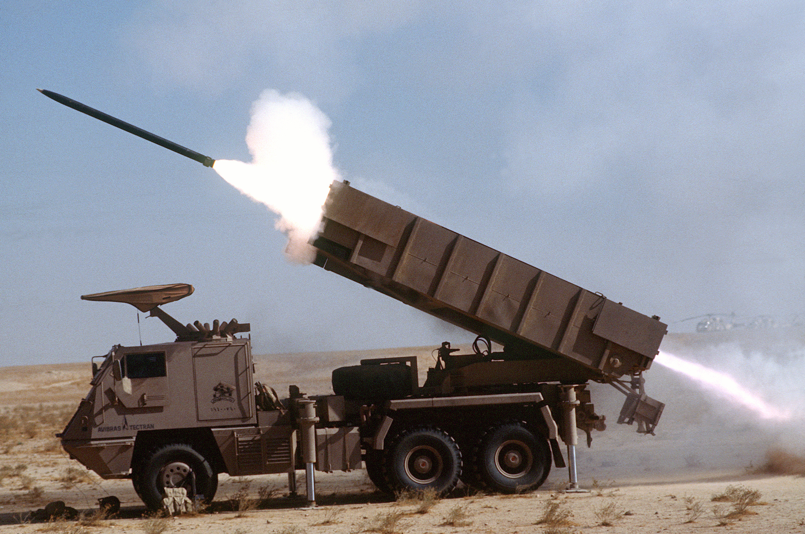 A Brazilian Avibras ASTROS-II SS-30 rocket is launched from an ASTROS SS-30 multiple rocket system mounted on the back of a Tectran 6x6 AV-LMU truck. The display is part of a demonstration of Saudi Arabian equipment taking place during Operation Desert Shield.